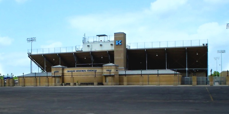 Exterior view of the entrance to Crenshaw Memorial Stadium as seen from Crenshaw Boulevard.